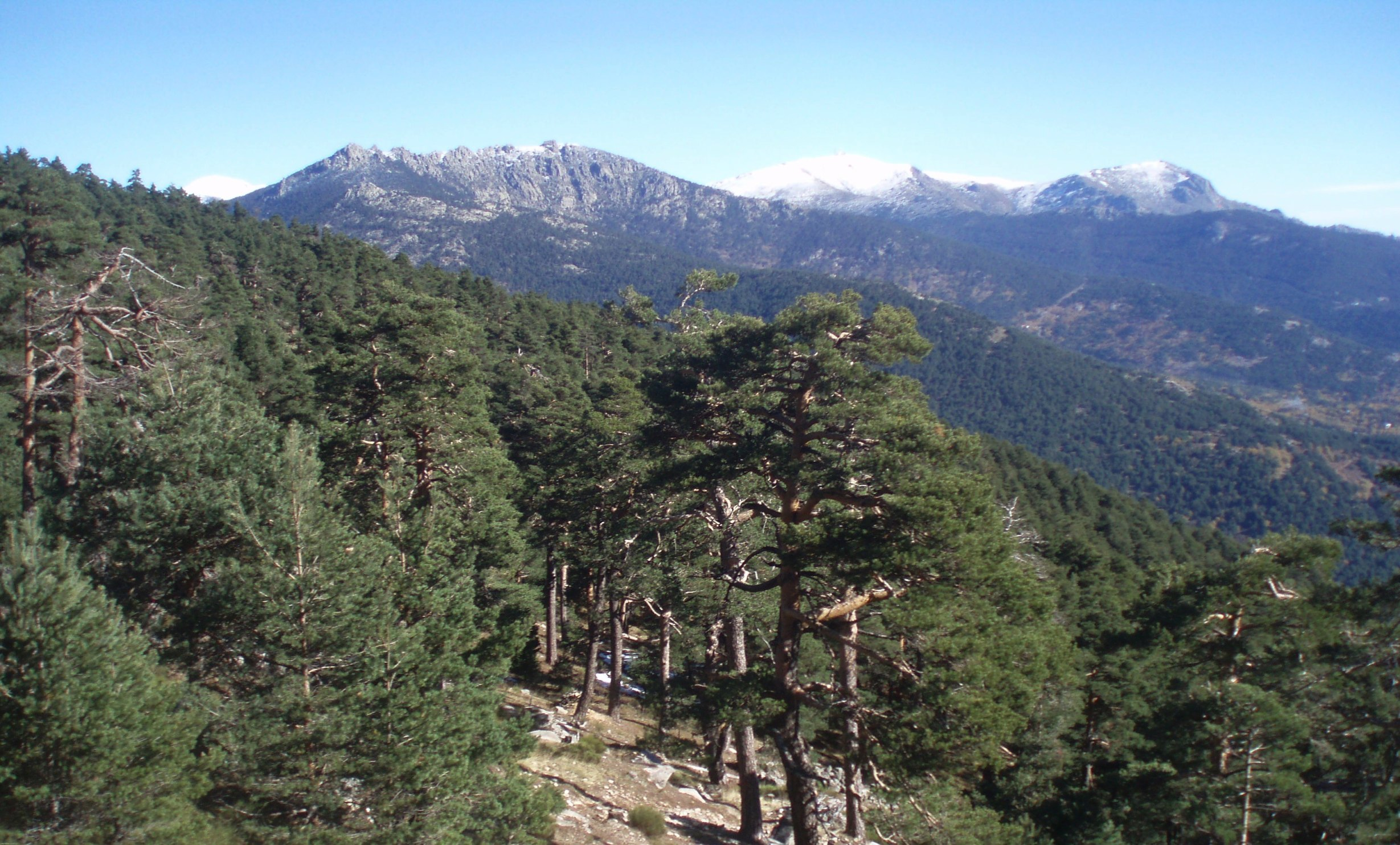 Guadarrama mountain range, Central Spain.